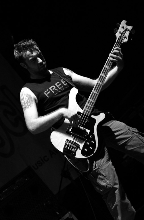 SUGARFREE LIVE TOUR 2010